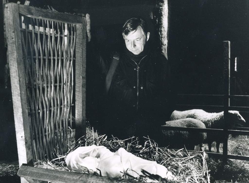 John Wells appearing on television discussion programme John Wells and the Three Wise Men. (c)1988 Open Media Ltd.